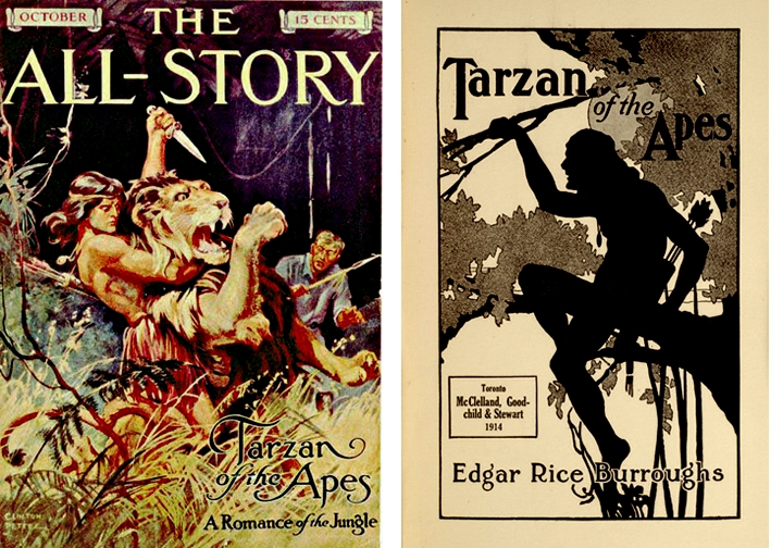 Left, first appearance in The All-Story, October, 1912. Right, first Canadian edition by McClelland, Goodchild, and Stewart, Toronto, 1914.